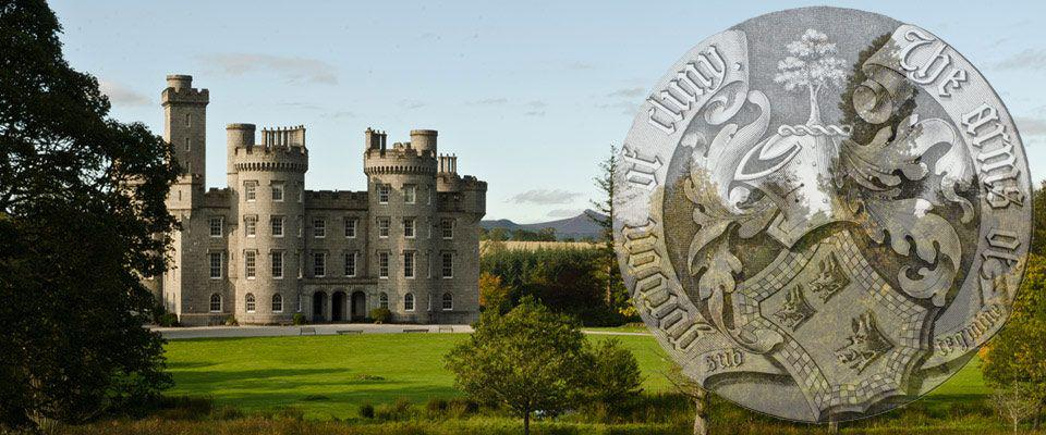 Cluny Castle with original Gordons of Cluny crest